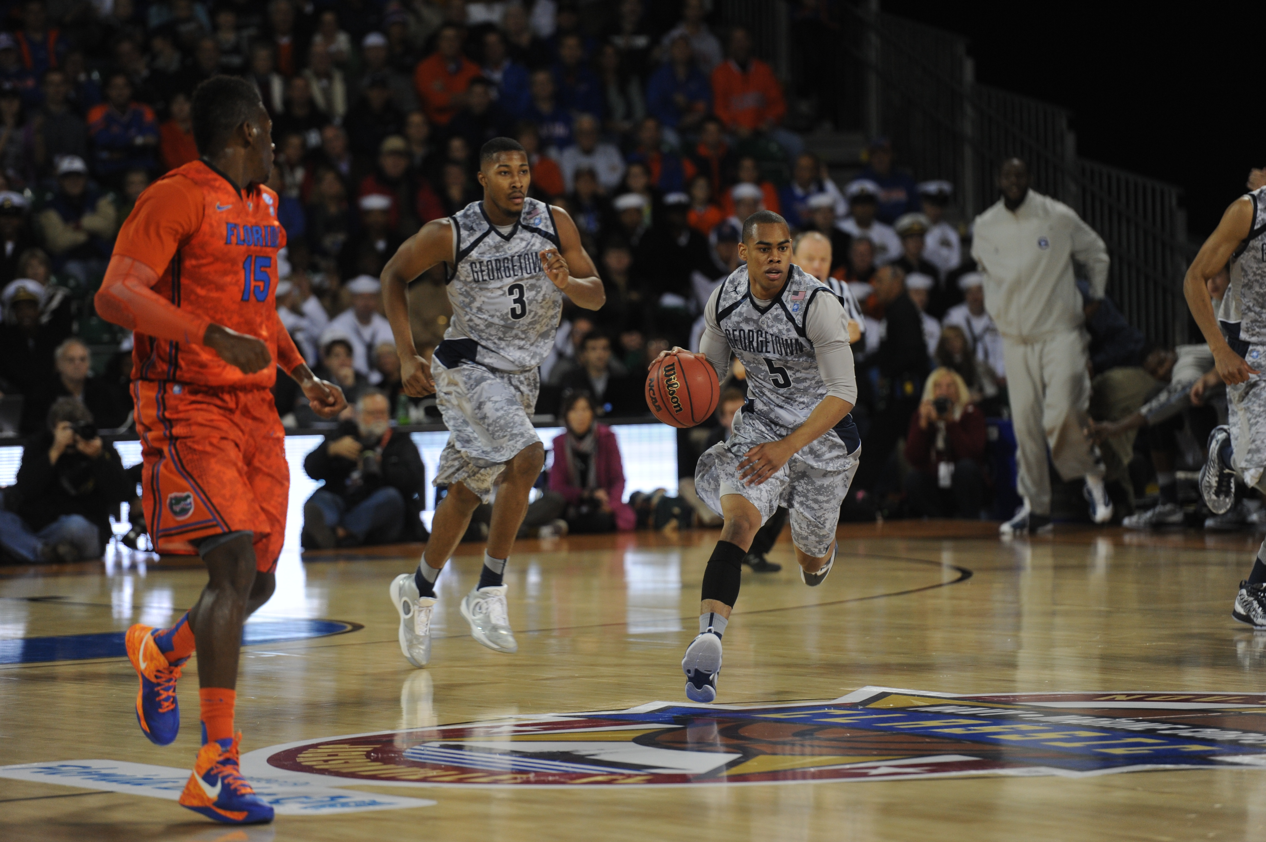 MAYPORT, Fla. (Nov. 9, 2012) The University of Florida Gators and the Georgetown University Hoyas play basketball on the flight deck of the multipurpose amphibious assault ship USS Bataan (LHD 5). Bataan hosted the event put on by the city of Jacksonville, Florida. The game however was canceled after the first half, due to an excess of condensation making the court slippery. U.S. Navy photo by Mass Communication Specialist 2nd Class Gary A. Prill/Released) 121109-N-RB564-005